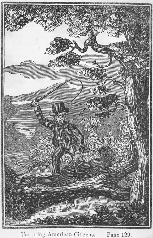 Torturing American citizens. (1834)